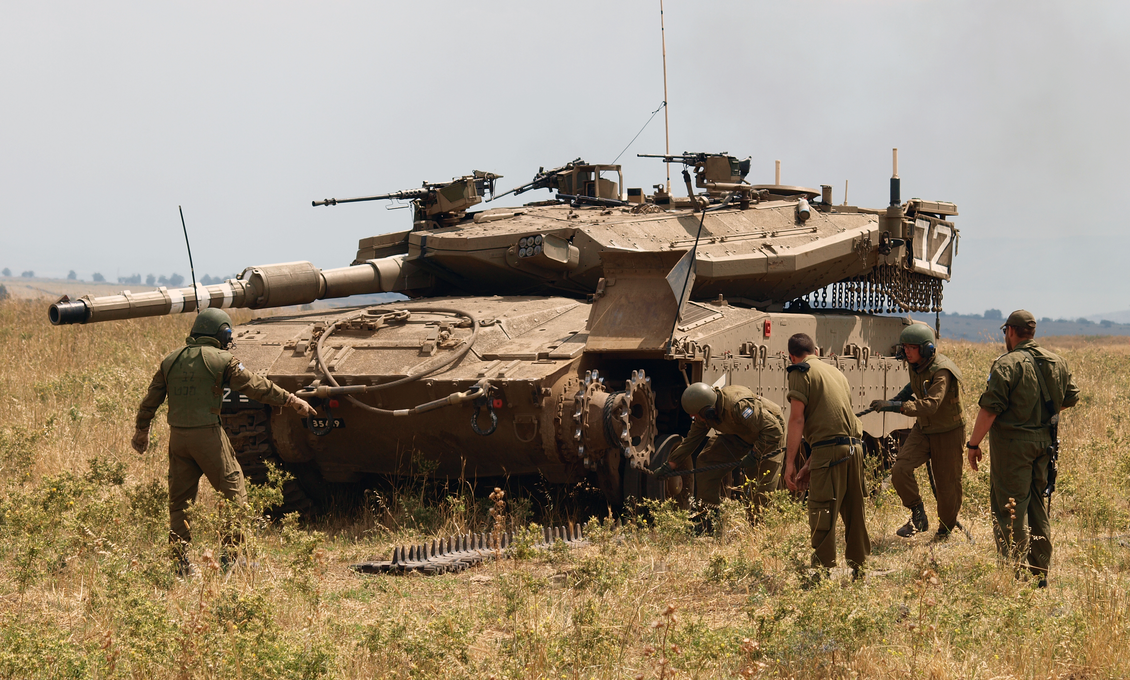 Installation of track on Merkava Mk III tank. Golan Heights.